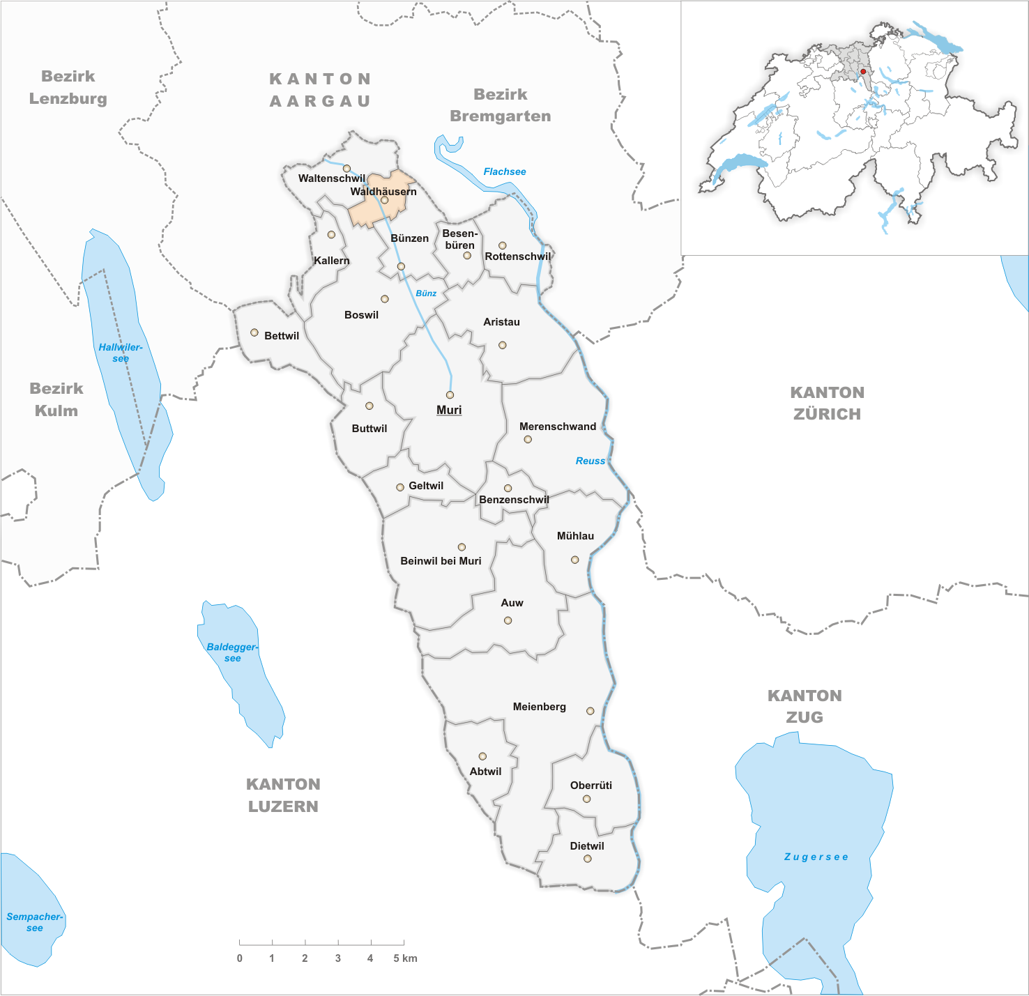 Municipality Waldhäusern